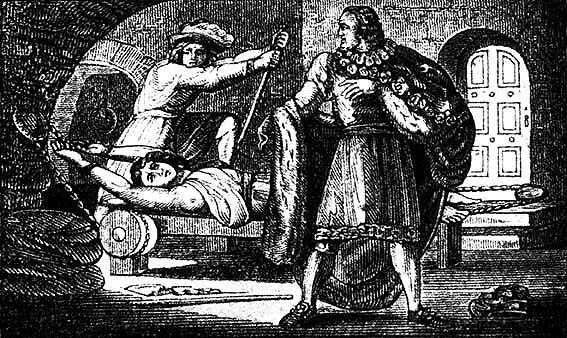 Engraved